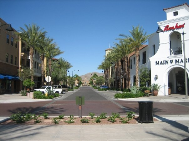 A view of Main Street in the Verrado neighborhood of Buckeye, Arizona, taken in 2007.